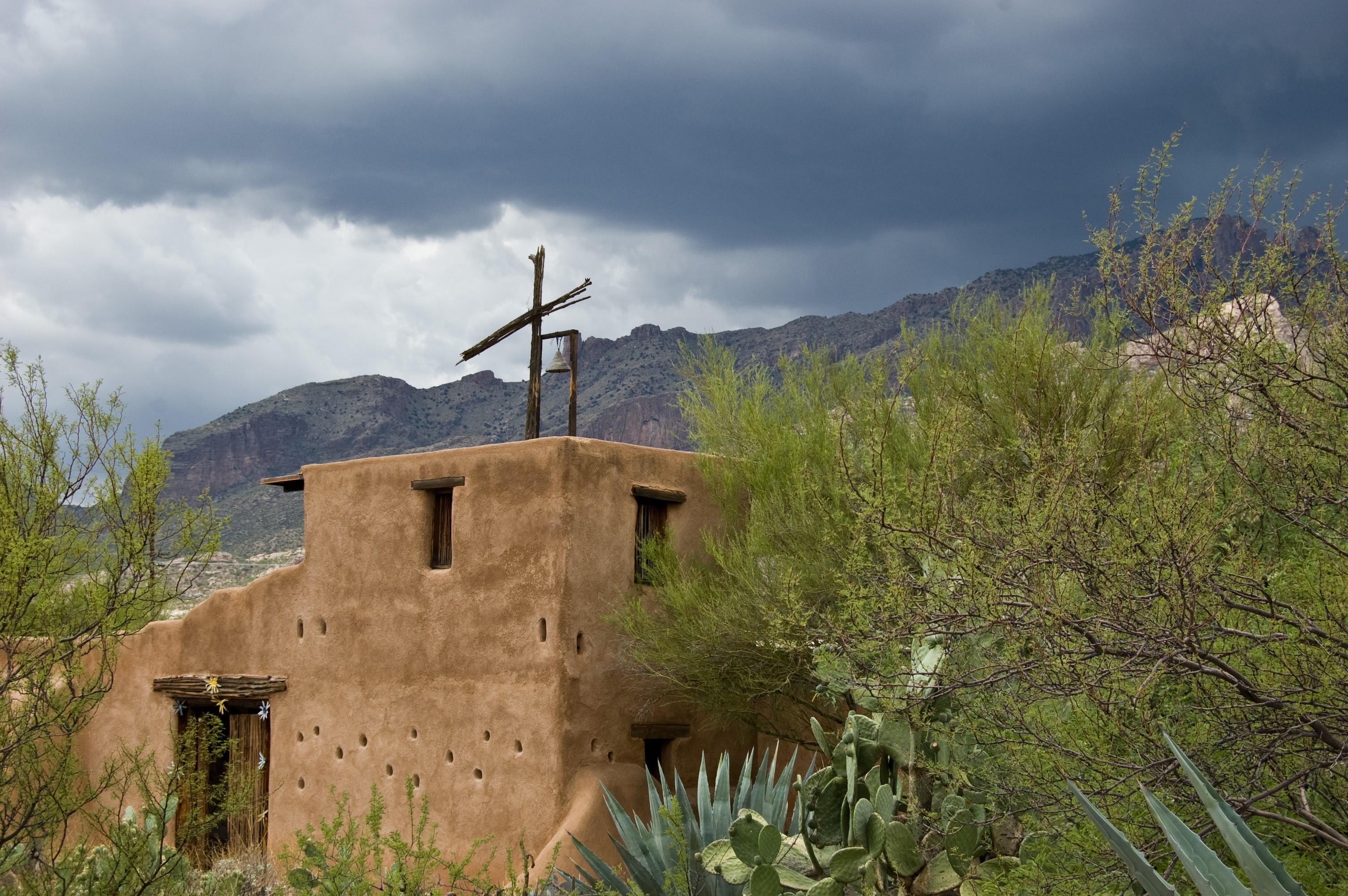 This small chapel is on the grounds of the De Grazia Gallery in the Sun in Tucson, Arizona. The artist built his own gallery in the foothills of the Catalina Mountains. When we visited, there was a thunderstorm in the mountains that provided a dramatic backdrop.